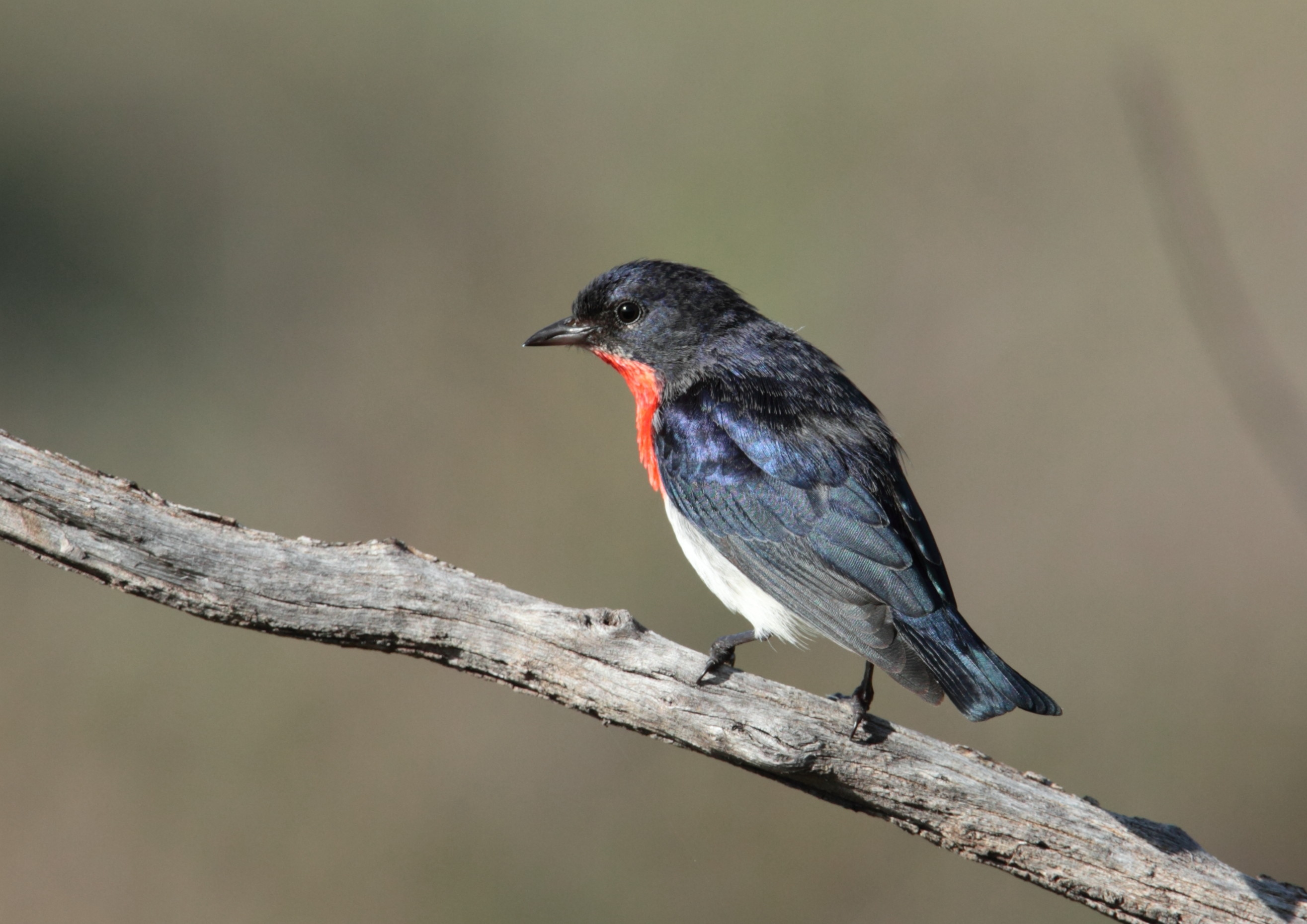 One of a few nice shots I recently took of the brightly coloured male.